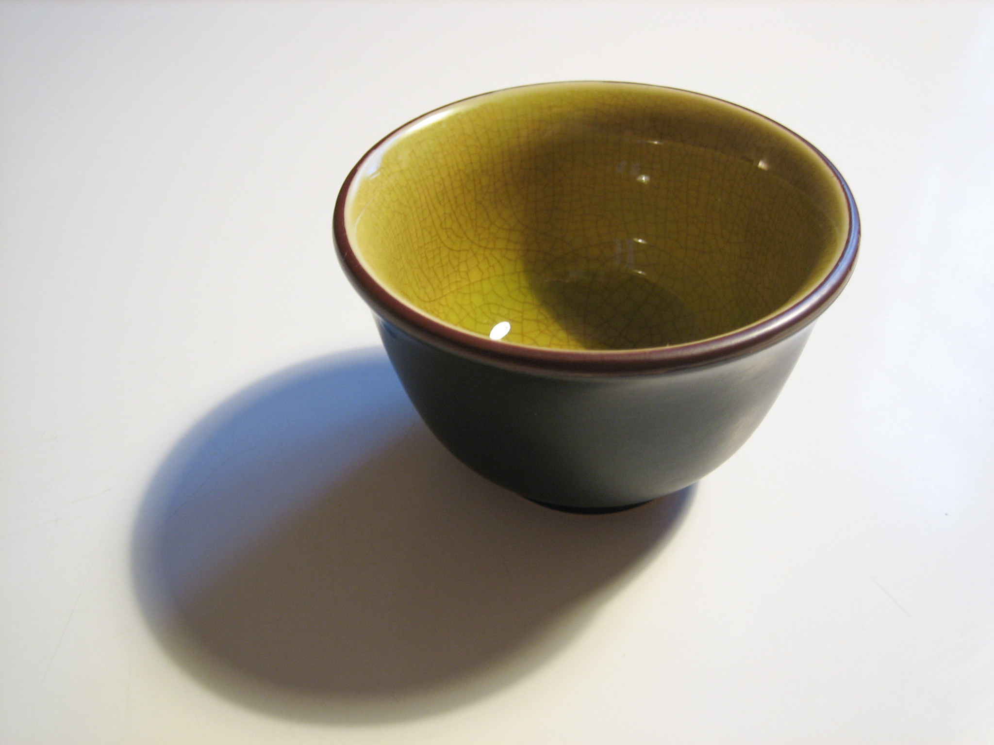 An image of a Small_black_and_green_CUP_no_handle